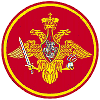 Armed Forced of the Russian Federation, sleeve insignia (badge, apliqué), universal to the «Ground Forces – GF».